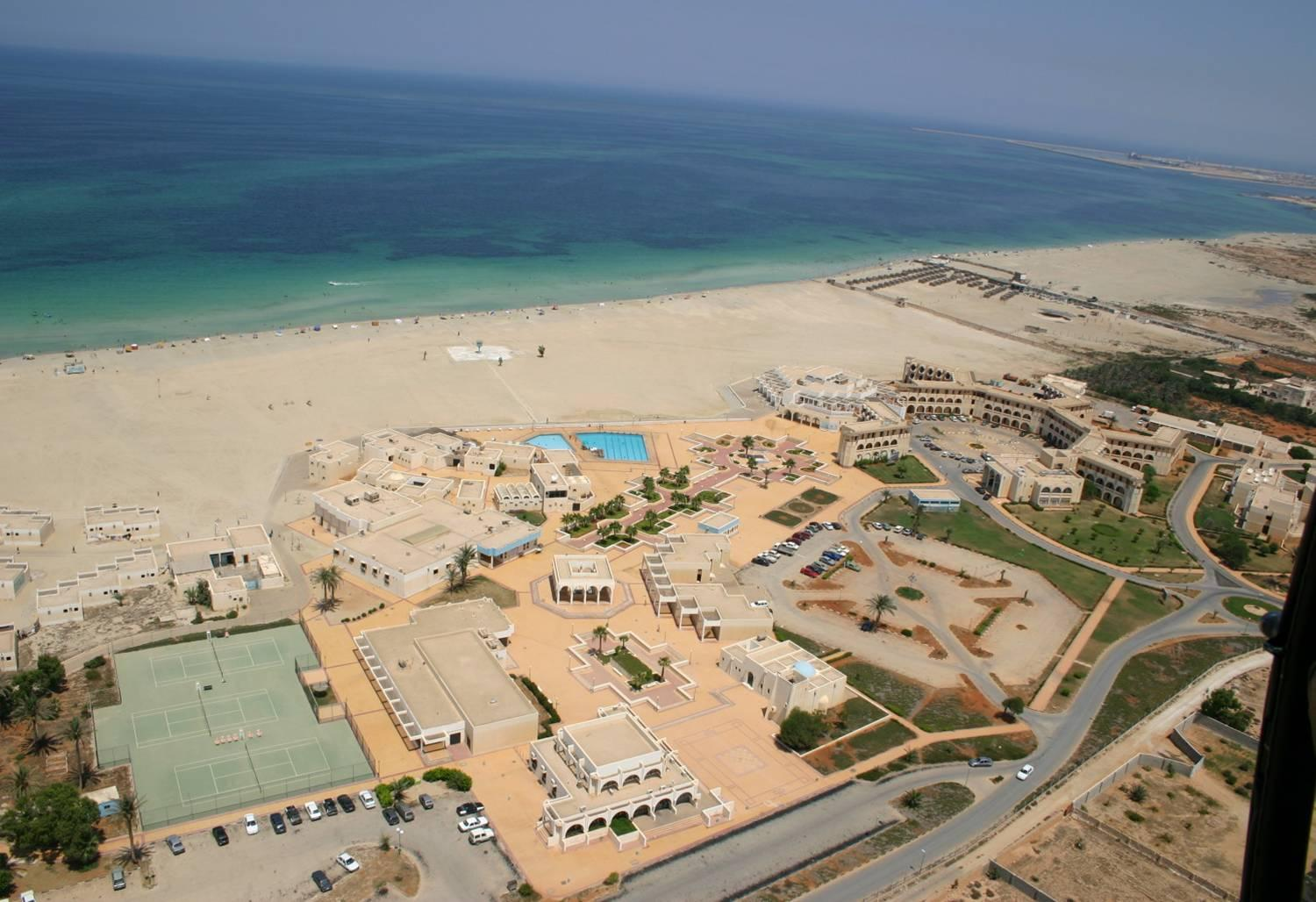 Beach view of the Garyounis Tourist Village also known as al-Qarya al-Siyahia (tourist village in Arabic) by locals.